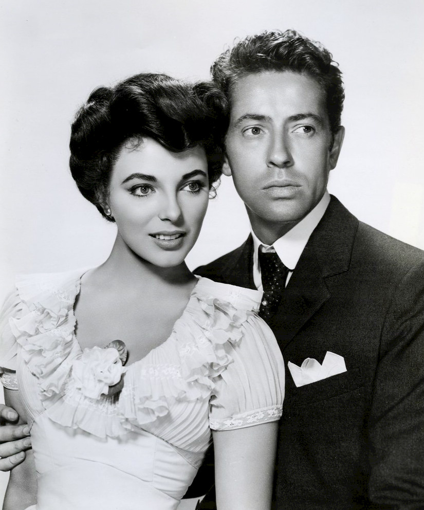 Photo of Joan Collins and Farley Granger from the film The Girl in the Red Velvet Swing.